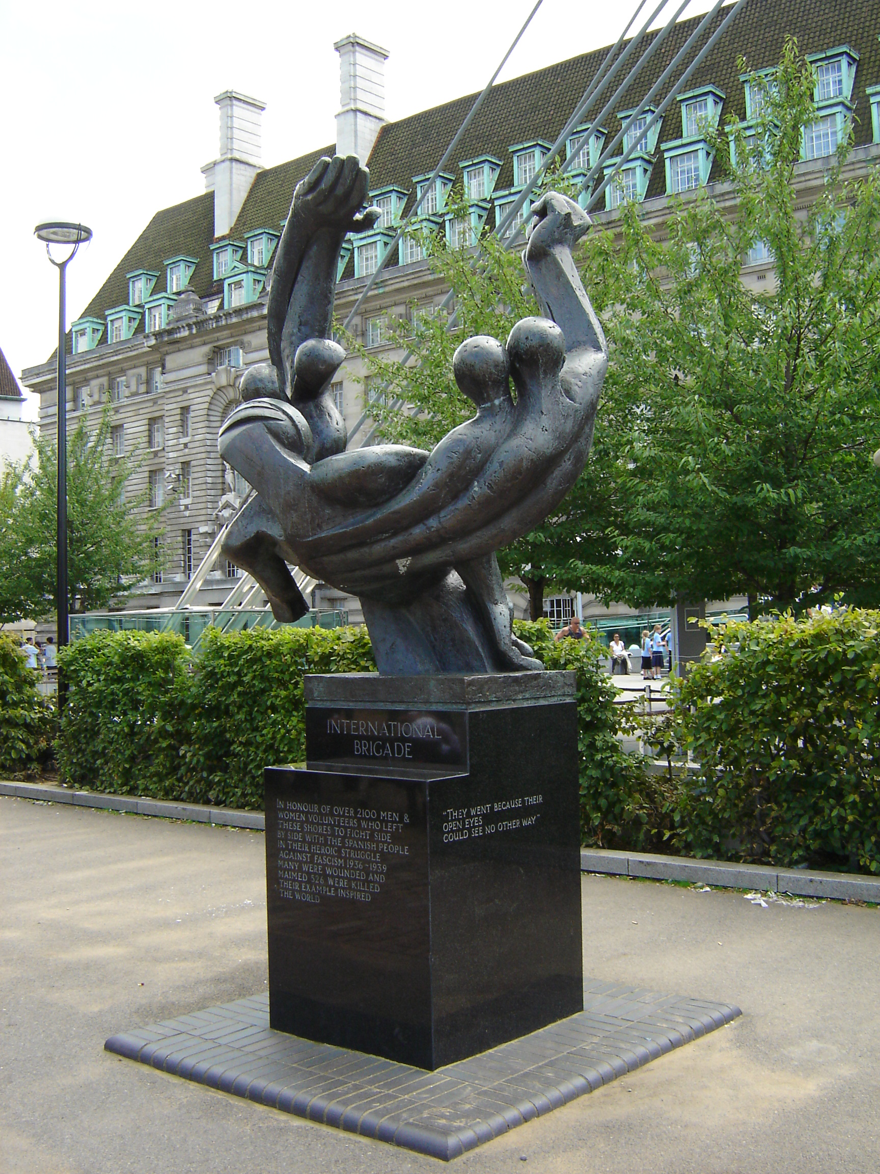 3/4 view International brigade Memorial, Jubilee gardens london, Former LCC building in background